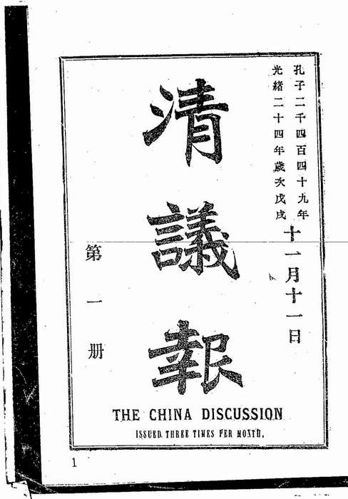 The China Discussion was published by Liang_Qichao when he was exile in Japan.